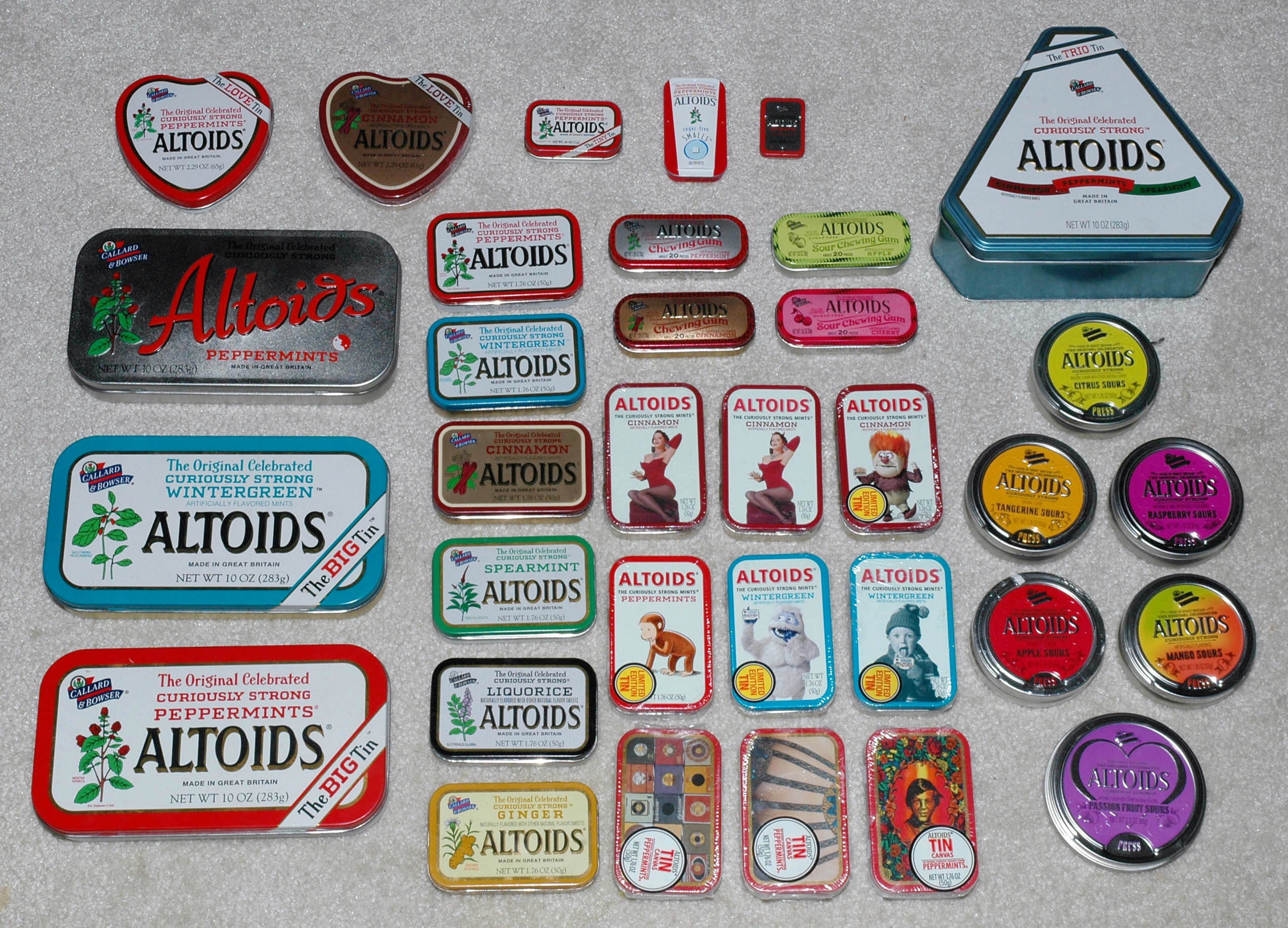 Image of different types of Altoids Tins